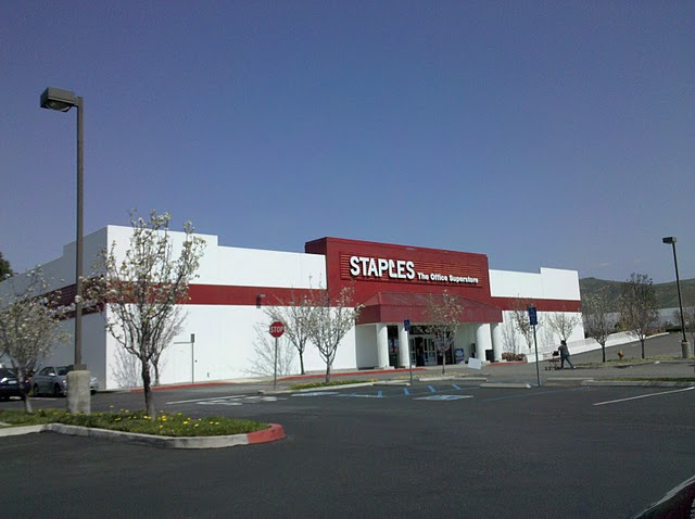 A location at the Savi Ranch Center in Yorba Linda, California